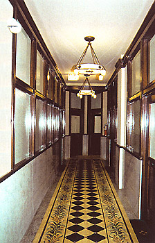 View of the completed Reliance Building corridor.